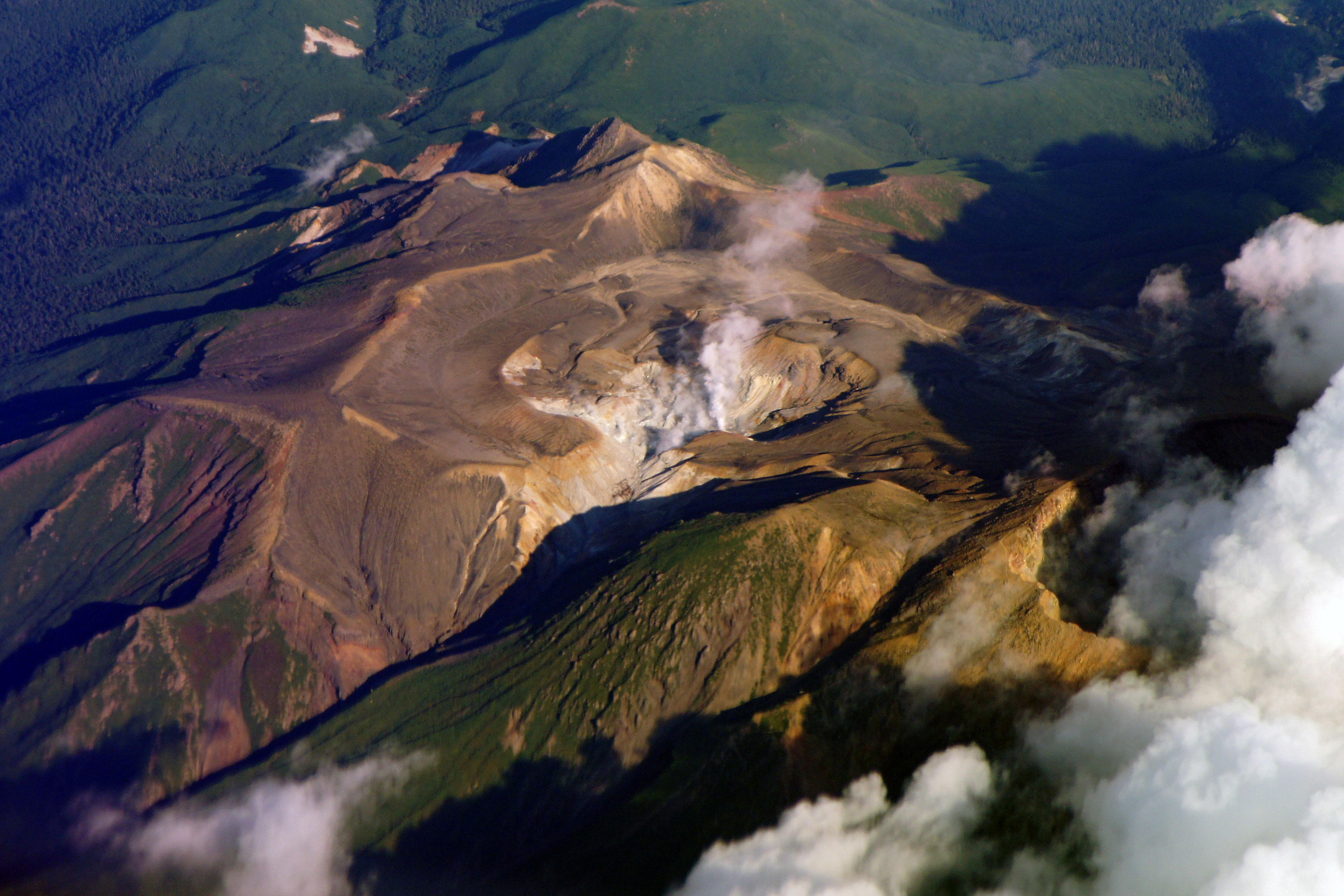 Mount Meakan in Hokkaido prefecture, Japan